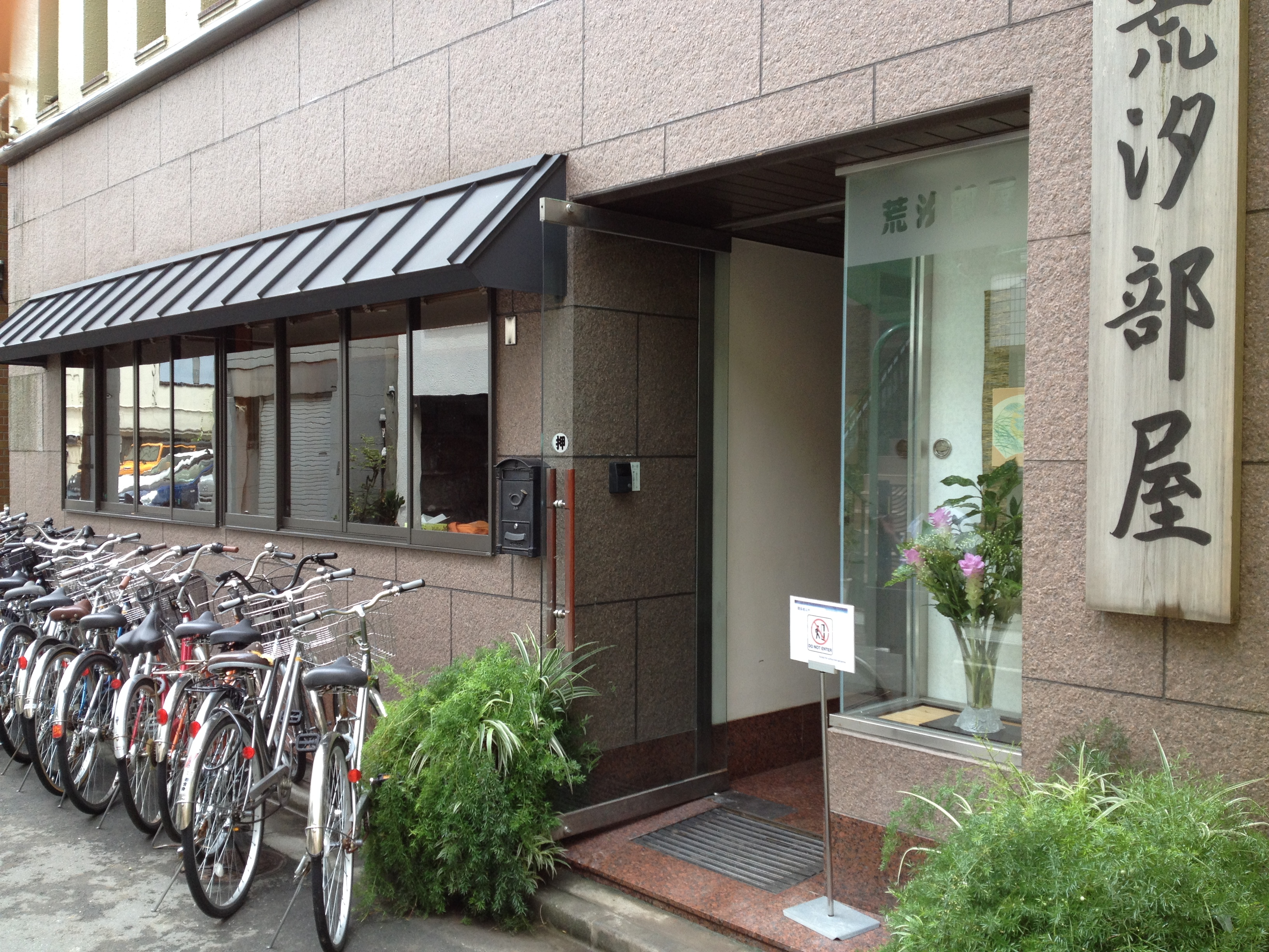 Front door of stable